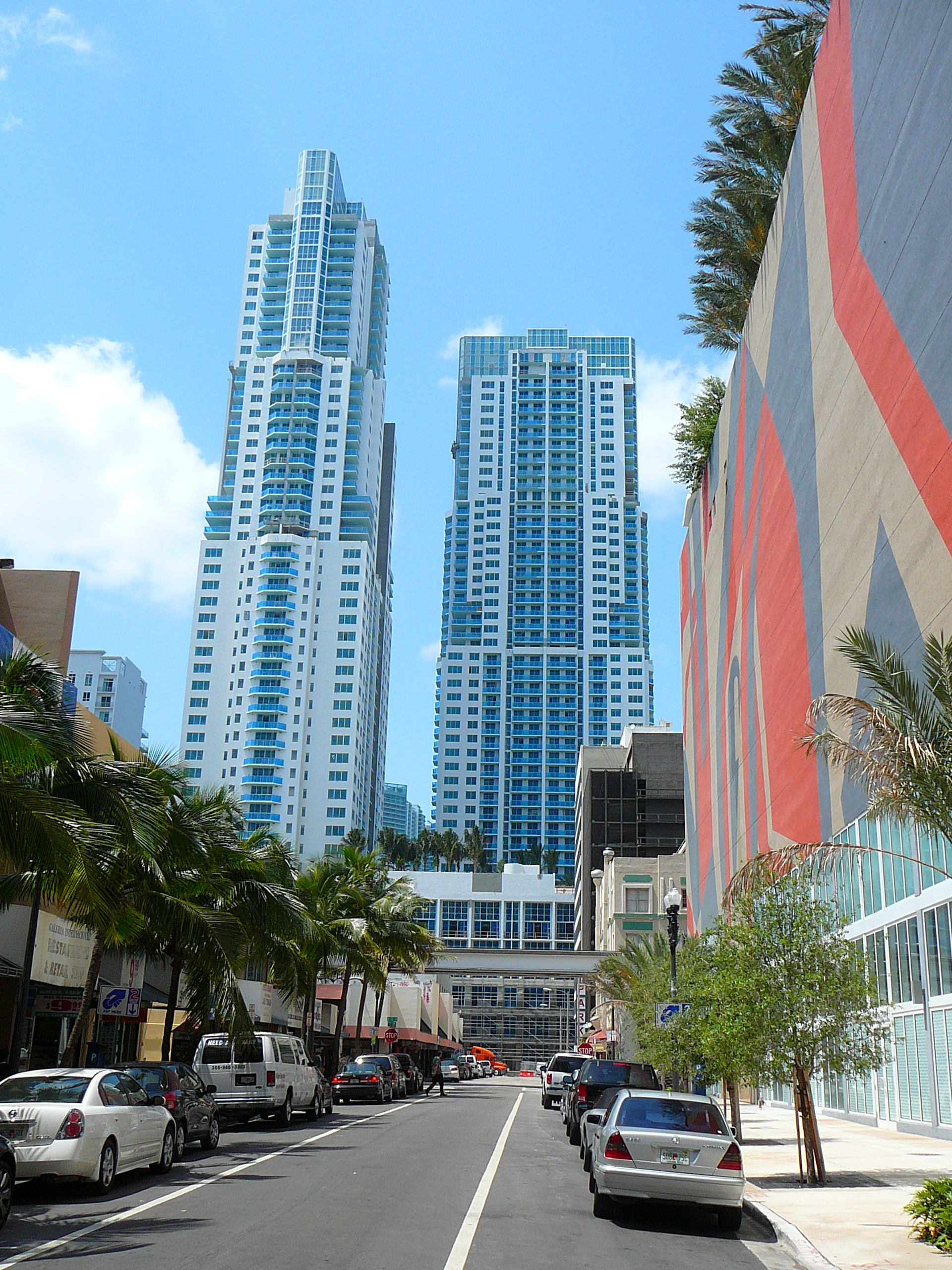 Digital photo taken by Marc Averette. Everglades on the Bay towers in Downtown Miami from the south 5/14/2008